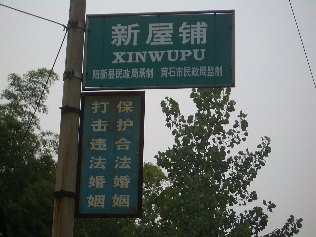 Entering Xinwupu, a village in Yangxin County (north of Longgang). The vertical sign says "Treasure legal marriage, fight against illegal marriage".